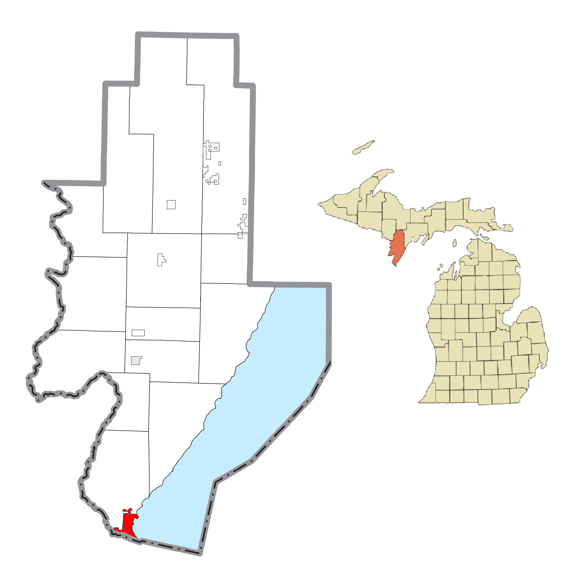 Menominee, MI